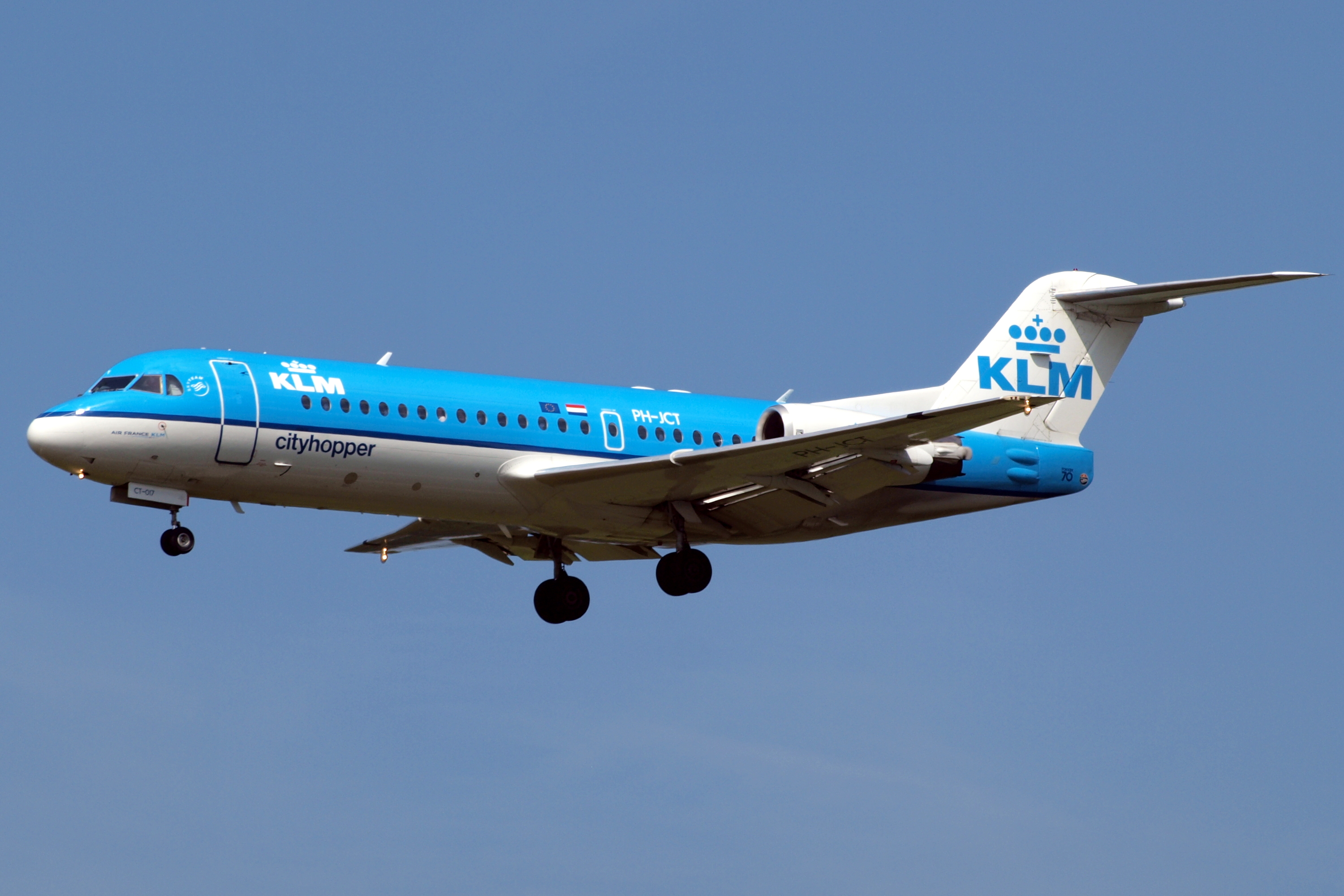 Photographed at Amsterdam airport Schiphol, the Netherlands.